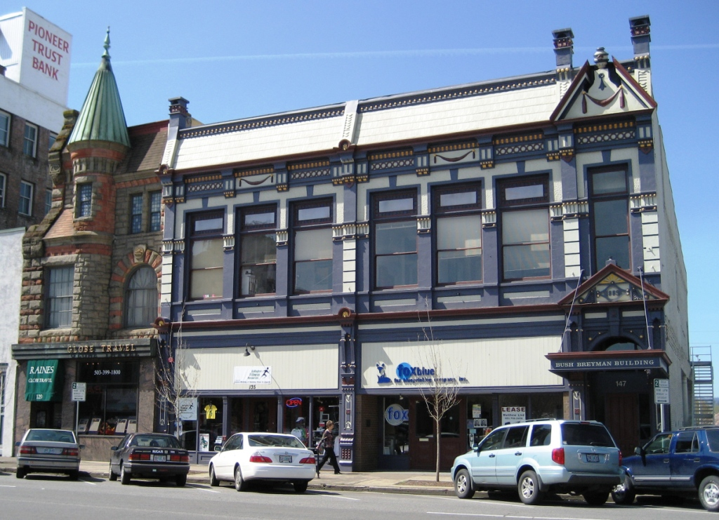 The historic Bush–Breyman Block, located at 135–147 Commercial Street Northeast in Salem, Oregon, United States, lies within the Salem Downtown State Street – Commercial Street Historic District. It is also individually listed on the US National Register of Historic Places (NRHP). On the left is the historic Capital National Bank Building.